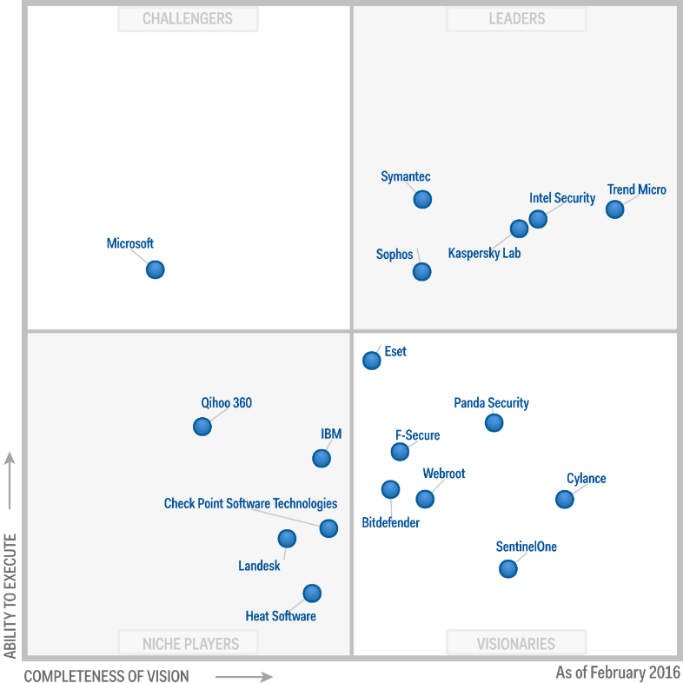 Magic Quadrant